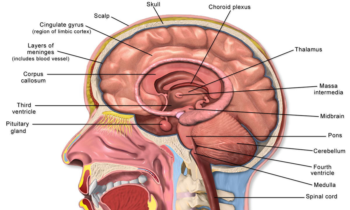 Brain Anatomy. Animation in the reference.[1] This image was donated by Blausen Medical.